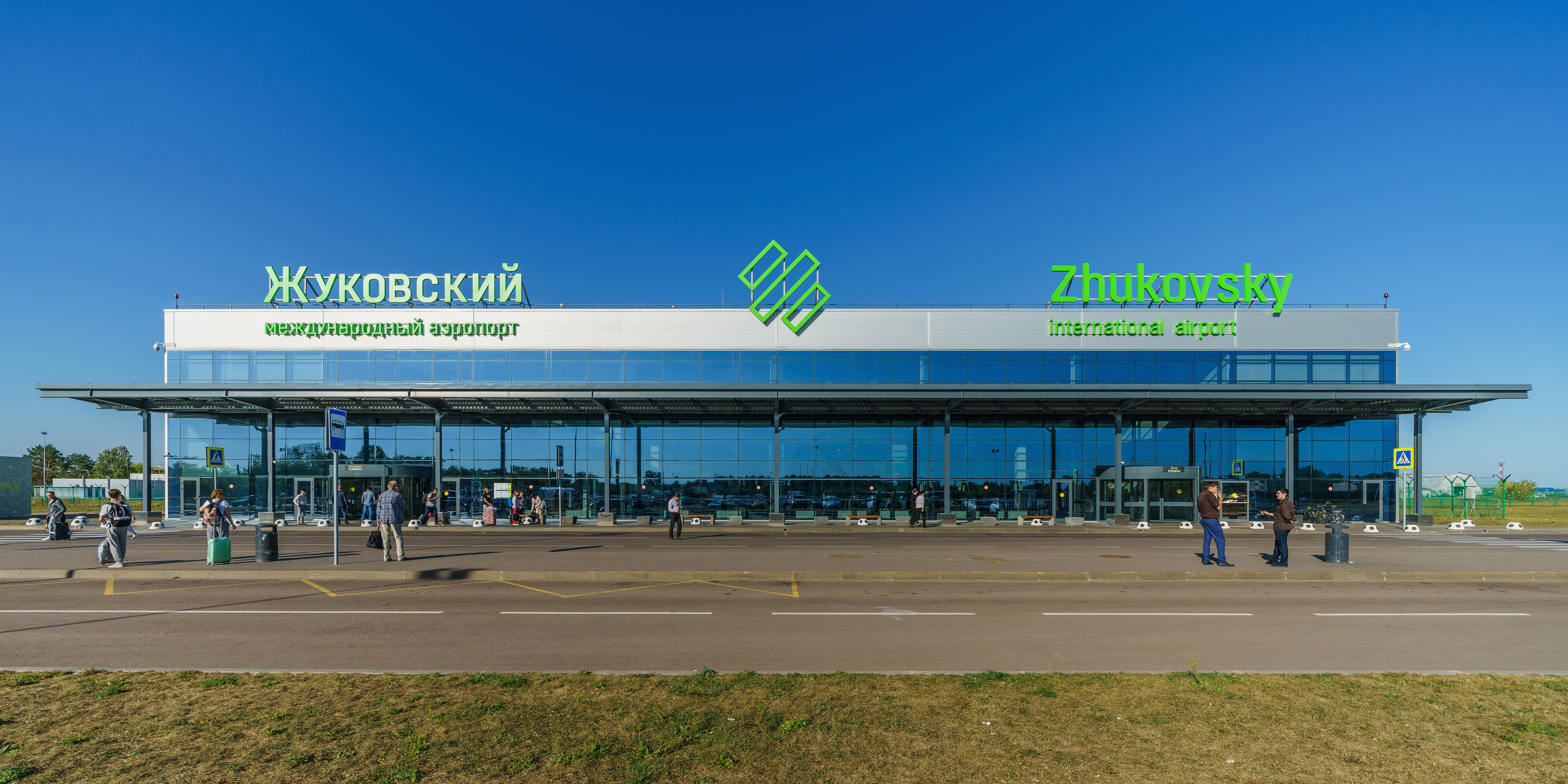 Terminal of Zhukovsky Int. Airport, Moscow Oblast, Russia